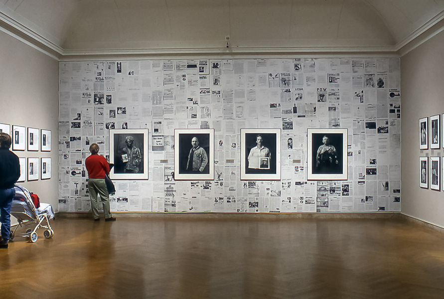 GI Resistance During the Vietnam War